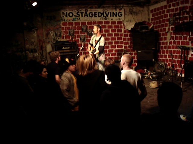 See the "20070303 Gilman Street video 02 Chris Murray" video Switchblade! I like the way the long blonde hair of the boy who is dancing moves and looks. Chris Murray was the highlight of the show for me. It was just him with a mike and a accoustic guitar played through an amp. So simple and powerful. His song writing is wonderful and so is his voice. He came on after JUSTIFI and A CLASS ACT, and before STARPOOL and FLIP THE SWITCH. This video was originally shared on blip.tv by milesgehm with a Creative Commons Attribution license.